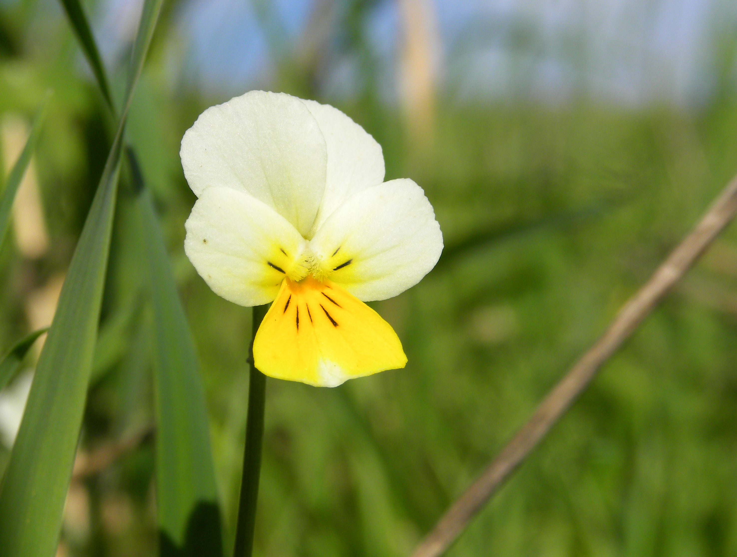 Field pansy